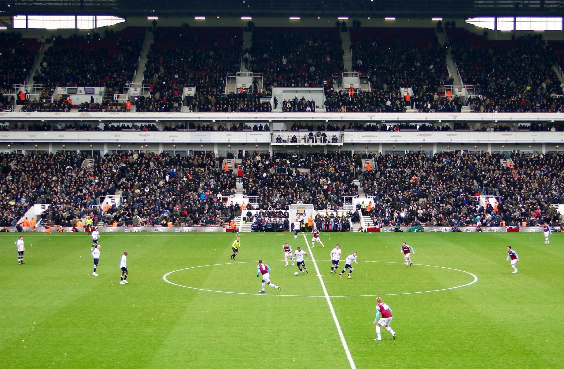 West Ham United and Millwall at kick-off at the Boleyn Ground, 2012.